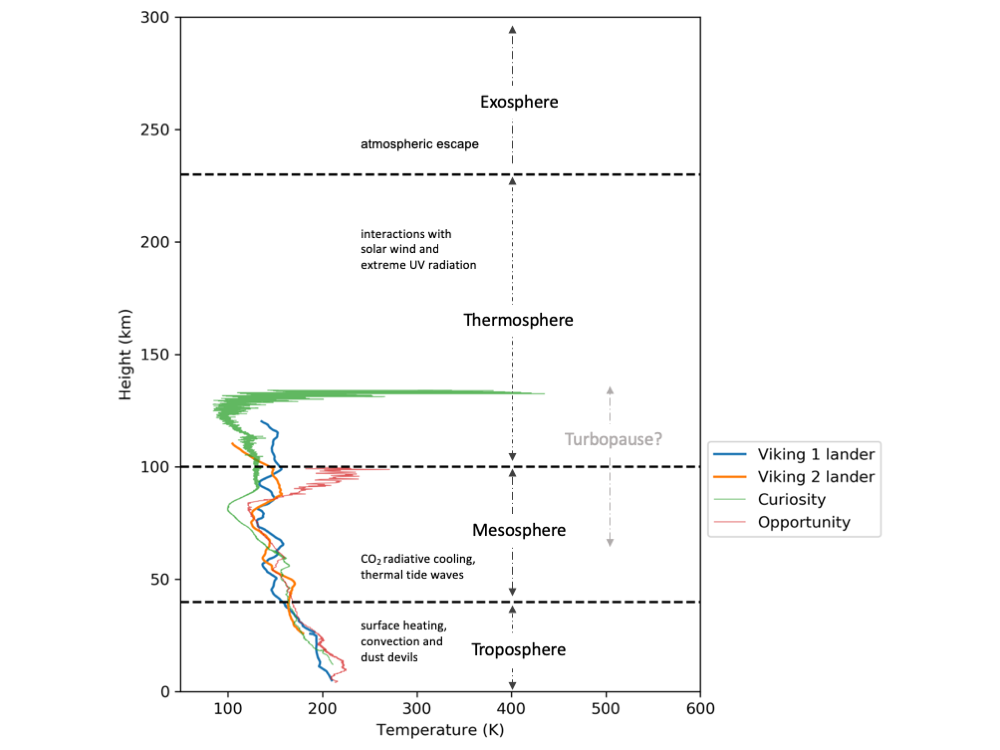 The temperature profiles are estimated from the lander entry probes. Data source and retrieval method: It is noted that the four rovers landed at different latitudes, longitudes and local times of day on Mars. The heights of the boundaries of different atmospheric layers are highly variable.